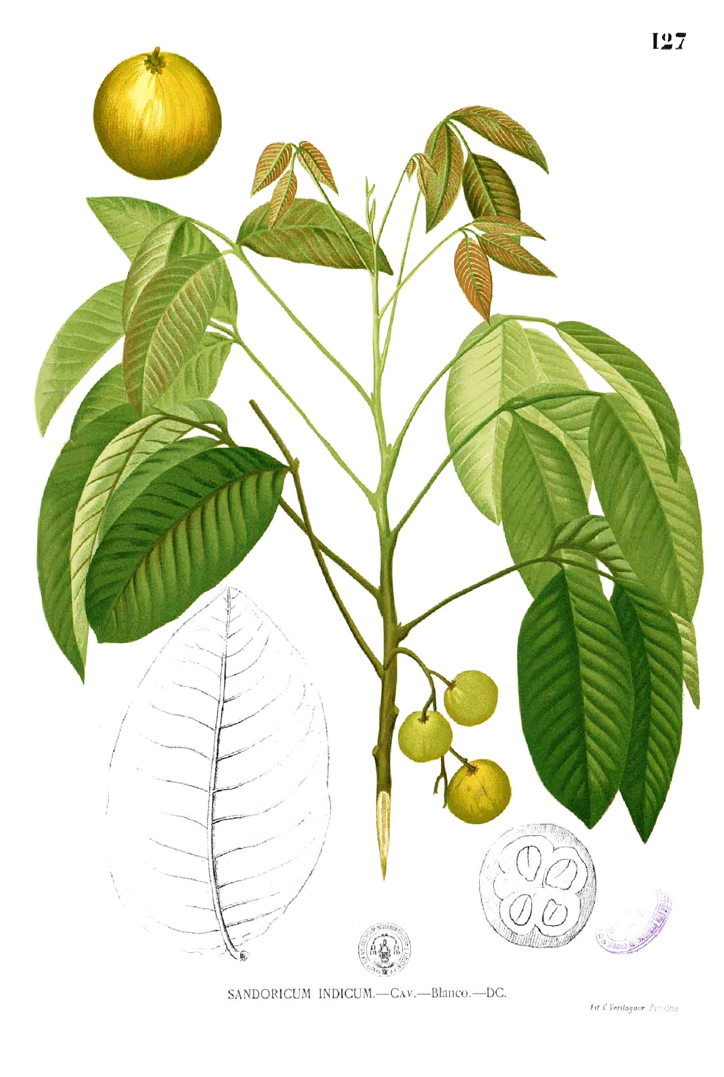 Plate from book